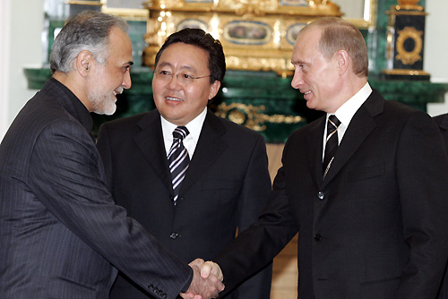 Russian President Vladimir Putin with representatives from Iran and Mongolia, observers in the Shanghai Cooperation Organisation